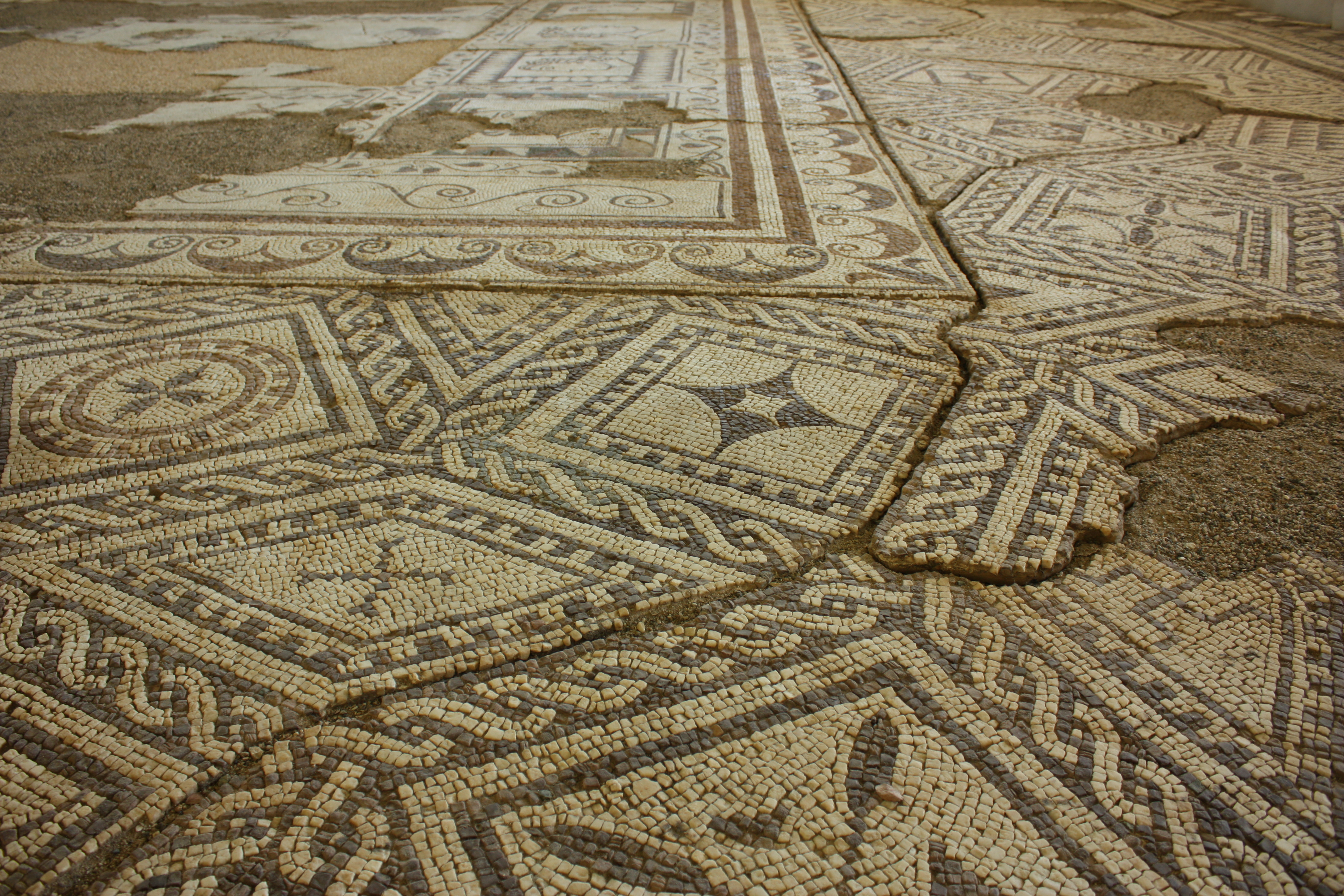 The most impressive findings at the ancient Roman Villa "Armira" that was discovered in 1964 near the Bulgarian city Ivailovgrad was the mosiacs with thich the floors were decorated...